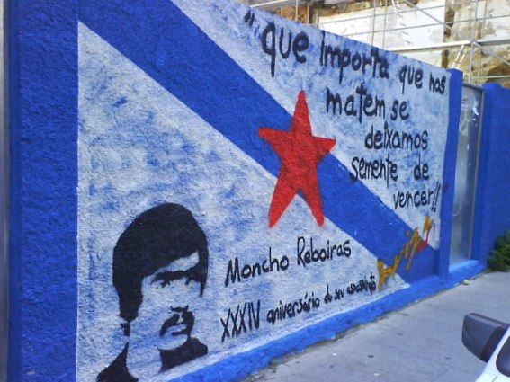 Mural featuring Moncho Reboiras, Galician independentist and communist, member of Unión do Povo Galego, assasinated by the Spanish police in 1975.